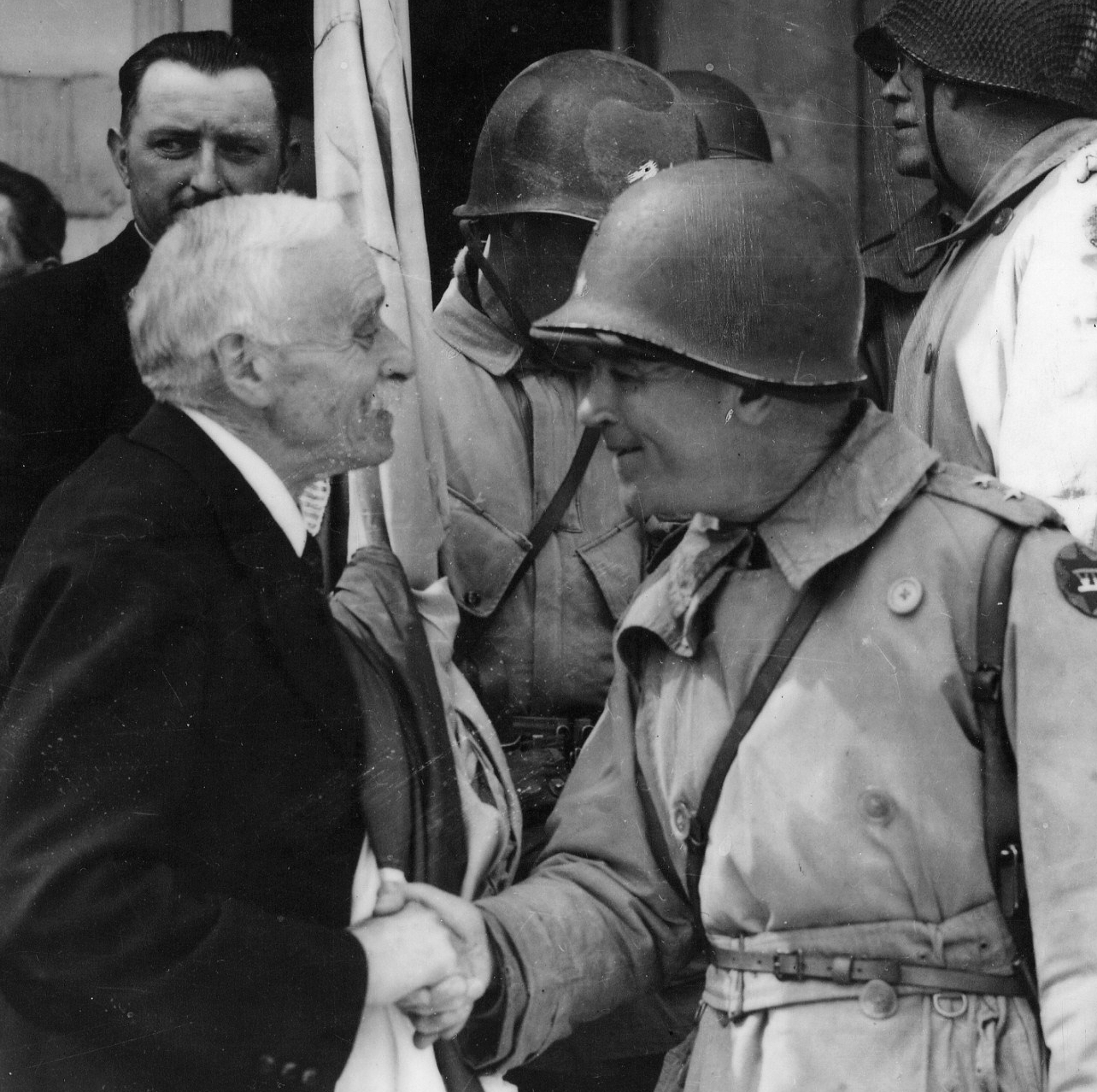 The mayor of Cherbourg thanks the American General Collins after liberating the city. Pictured in "Voir" (See).